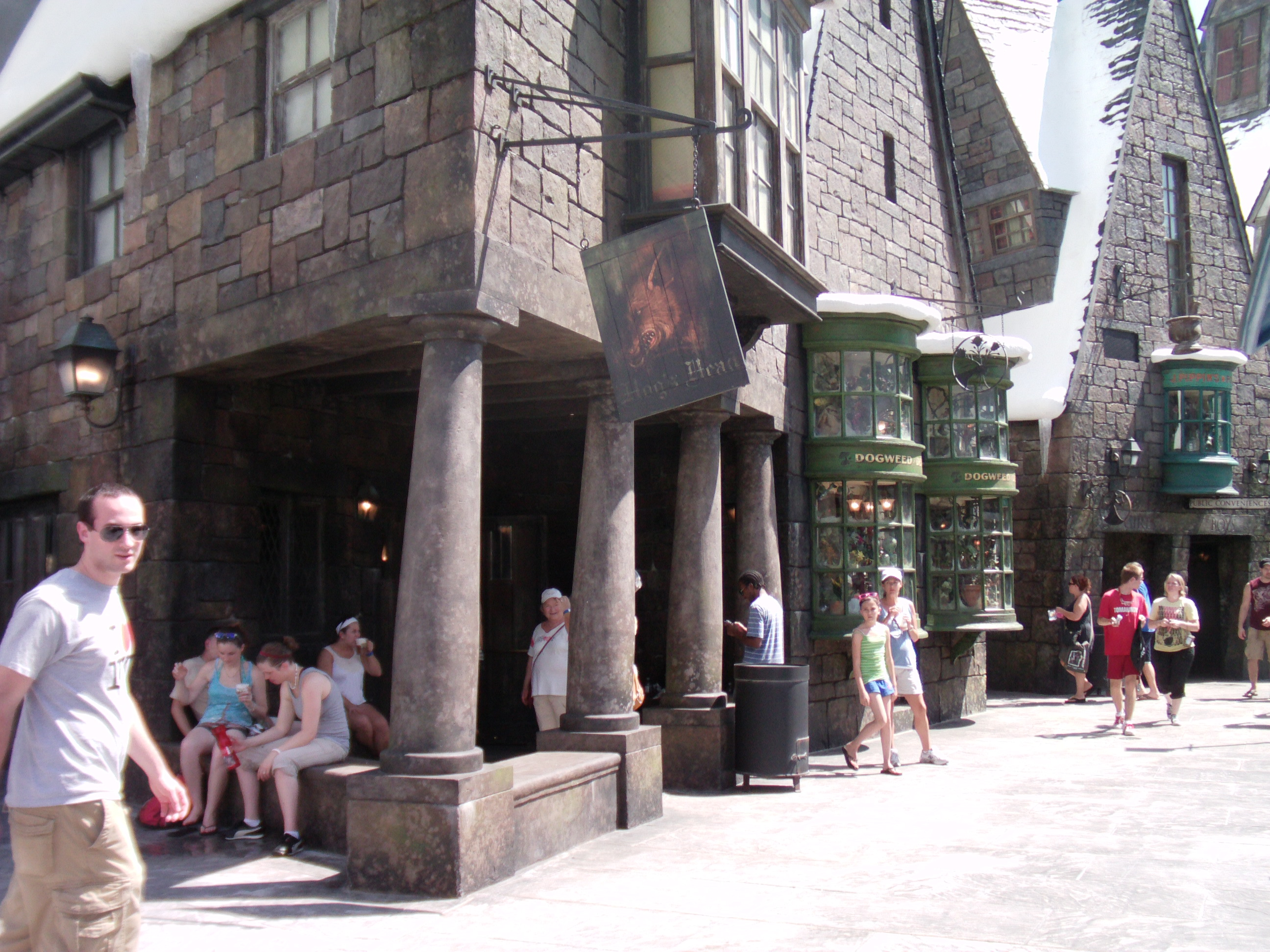 Entrance of the Hog's Head Pub at Islands of Adventure.